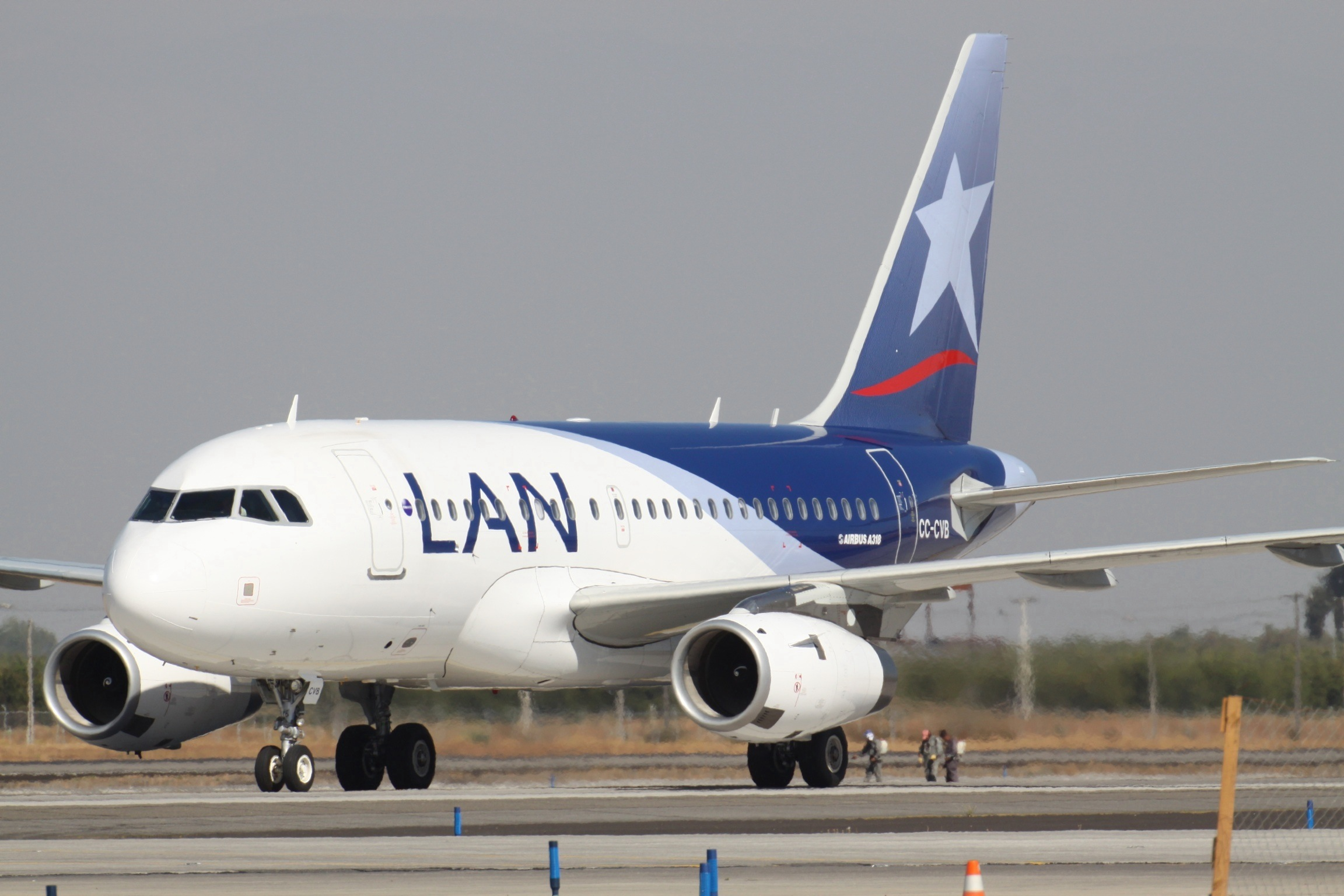 At Santiago